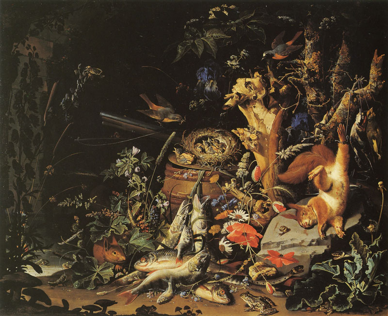 Game, Fish, and a Nest on a Forest Floor